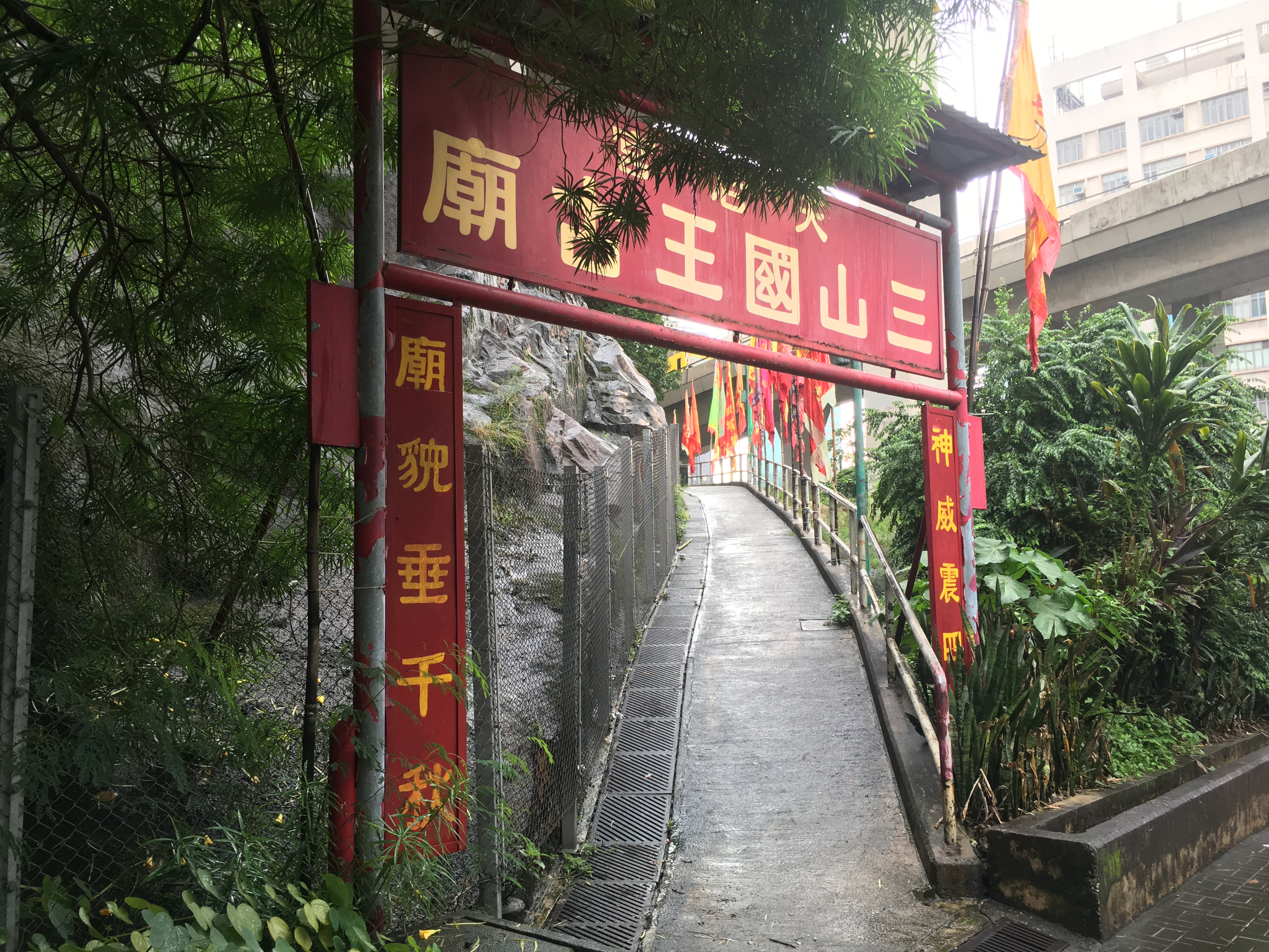 The temple is built for the "Three Kings of the Hill ' belief originated from Caozhou. This is one of the temples in Hong Kong and located in Kwun Tong.